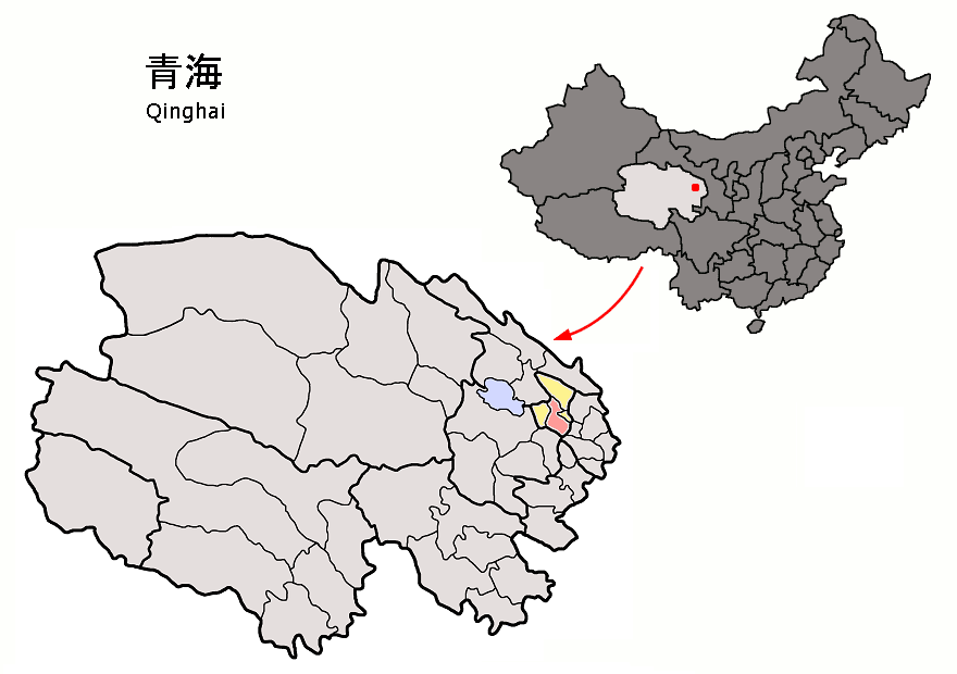 Location of Huangzhong County (pink) and Xining Prefecture (yellow) within Qinghai province of China Map drawn in september 2007 using various sources, mainly : Qinghai province administrative regions GIS data: 1:1M, County level, 1990 Qinghai Counties map from "Plateau Perspectives" (the limits of some county-level subdivisions may not be accurate)